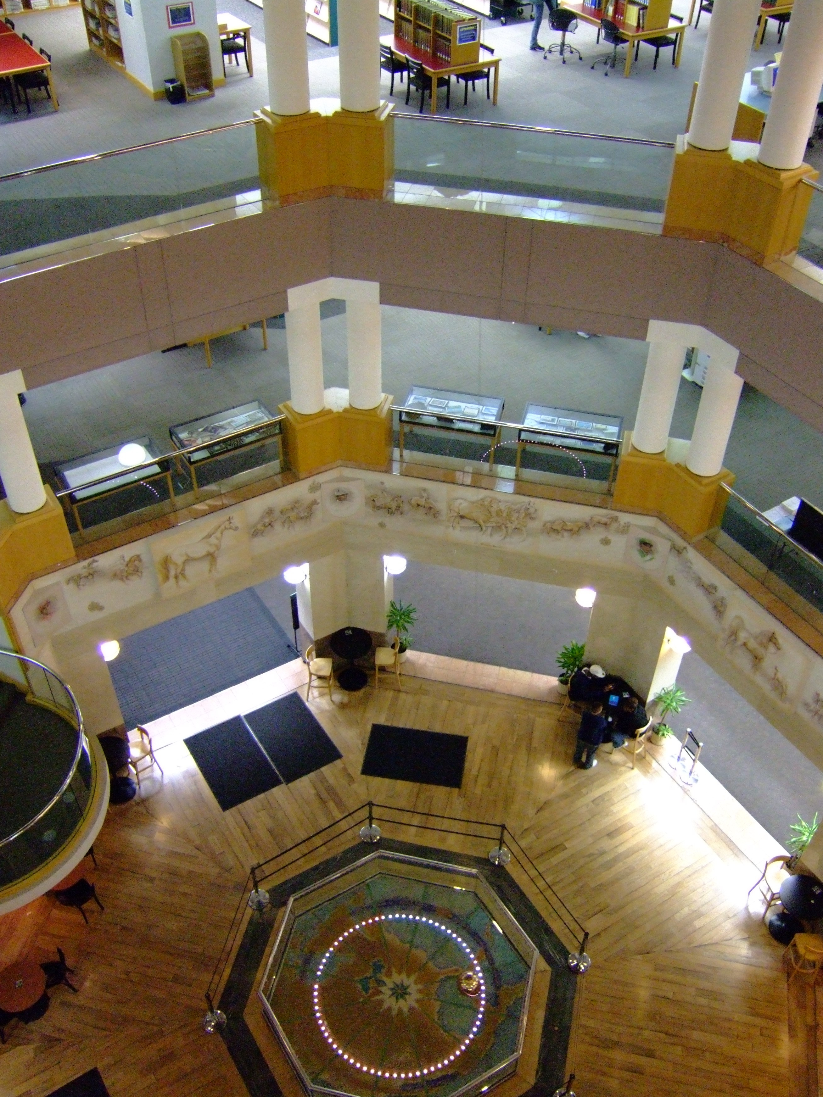 The Rotunda at the main library in Lexington, Kentucky. Self made photo.